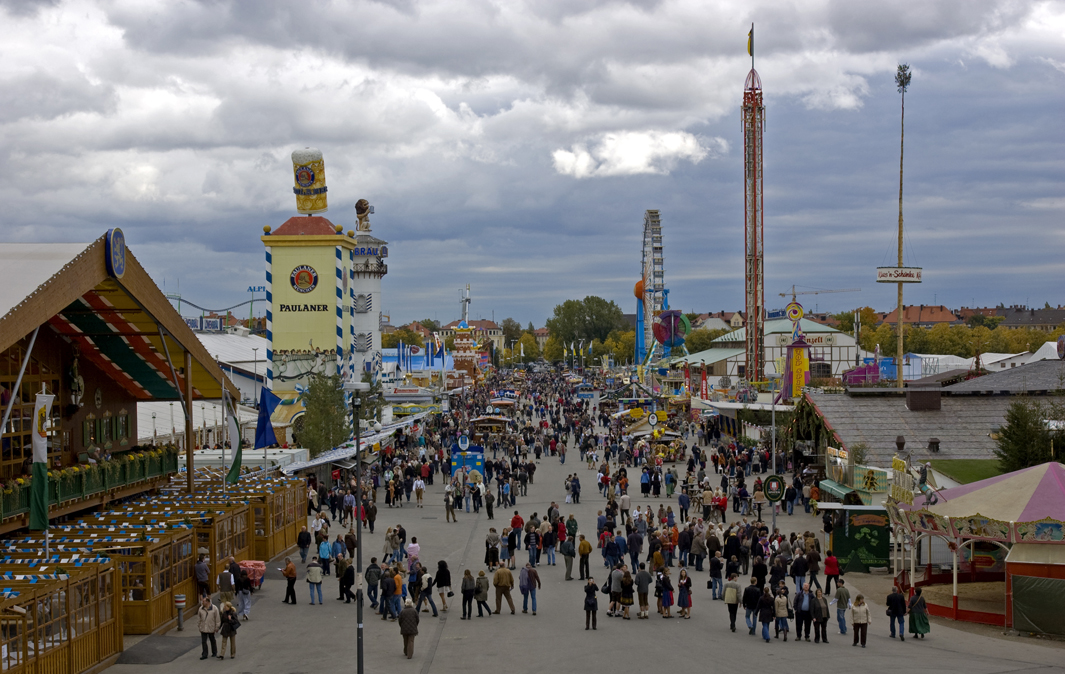 Power Tower II on Oktoberfest